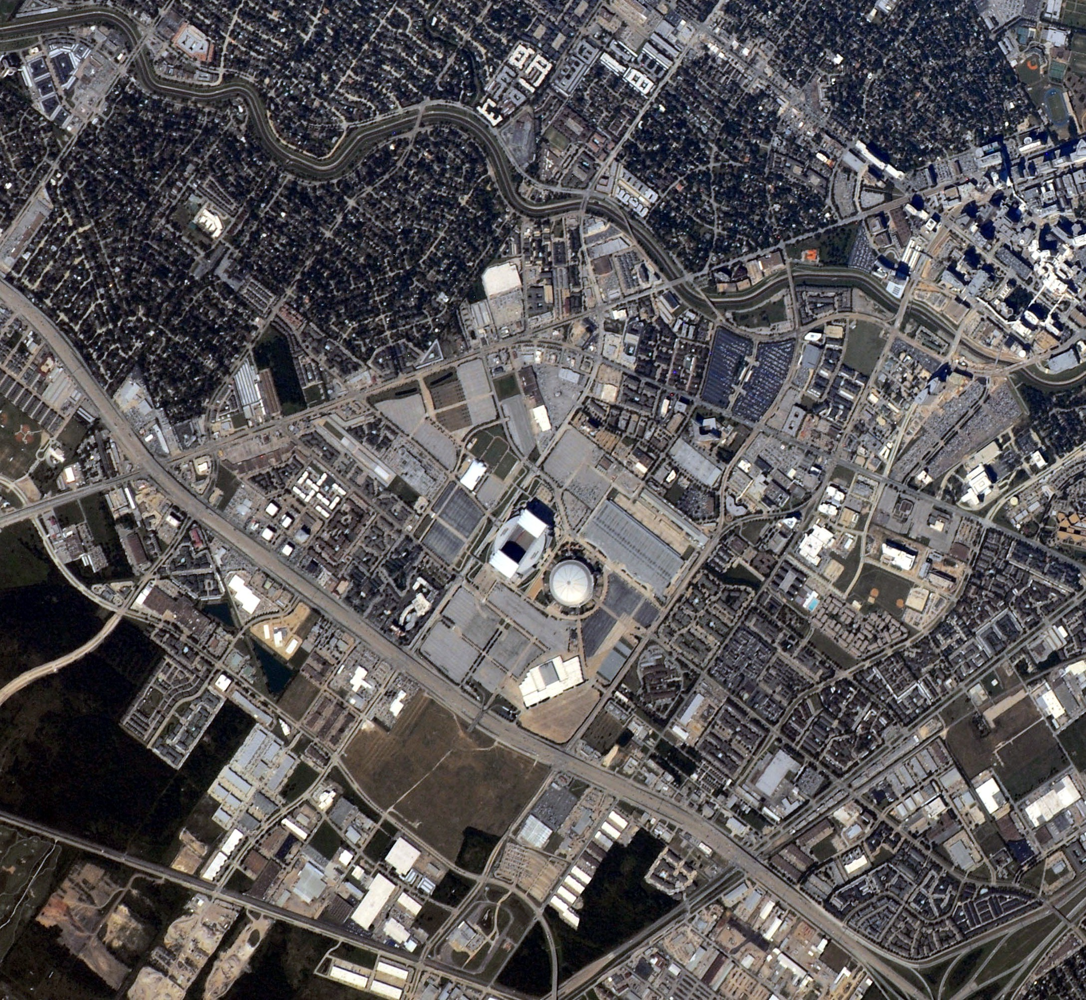 This astronaut photograph highlights the Reliant Park area of Houston’s “inner loop,” the part of the city located within Interstate Highway 610. Reliant Stadium was built in 2002 to host the Houston Texans, a National Football League team. It was the first American football stadium built with a retractable roof (shown here in its retracted position). Houston is home to the NASA Johnson Space Center and is notable among major U.S. metropolitan areas for its lack of formal zoning ordinances. (Other forms of regulation play a similar role here.) This leads to highly mixed land use within the city. Around Reliant Park you can find large asphalt parking lots, vacant lots with a mixture of grass and exposed topsoil, and both single- and multi-family residential areas. A forested area (dark green, lower left) is located less than two kilometres from the parking lots.